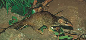 Indian Tree-shrew (Anathana ellioti) in Yercaud, India.